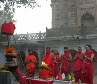 Yagya at Old Durga Mandir, Banaras